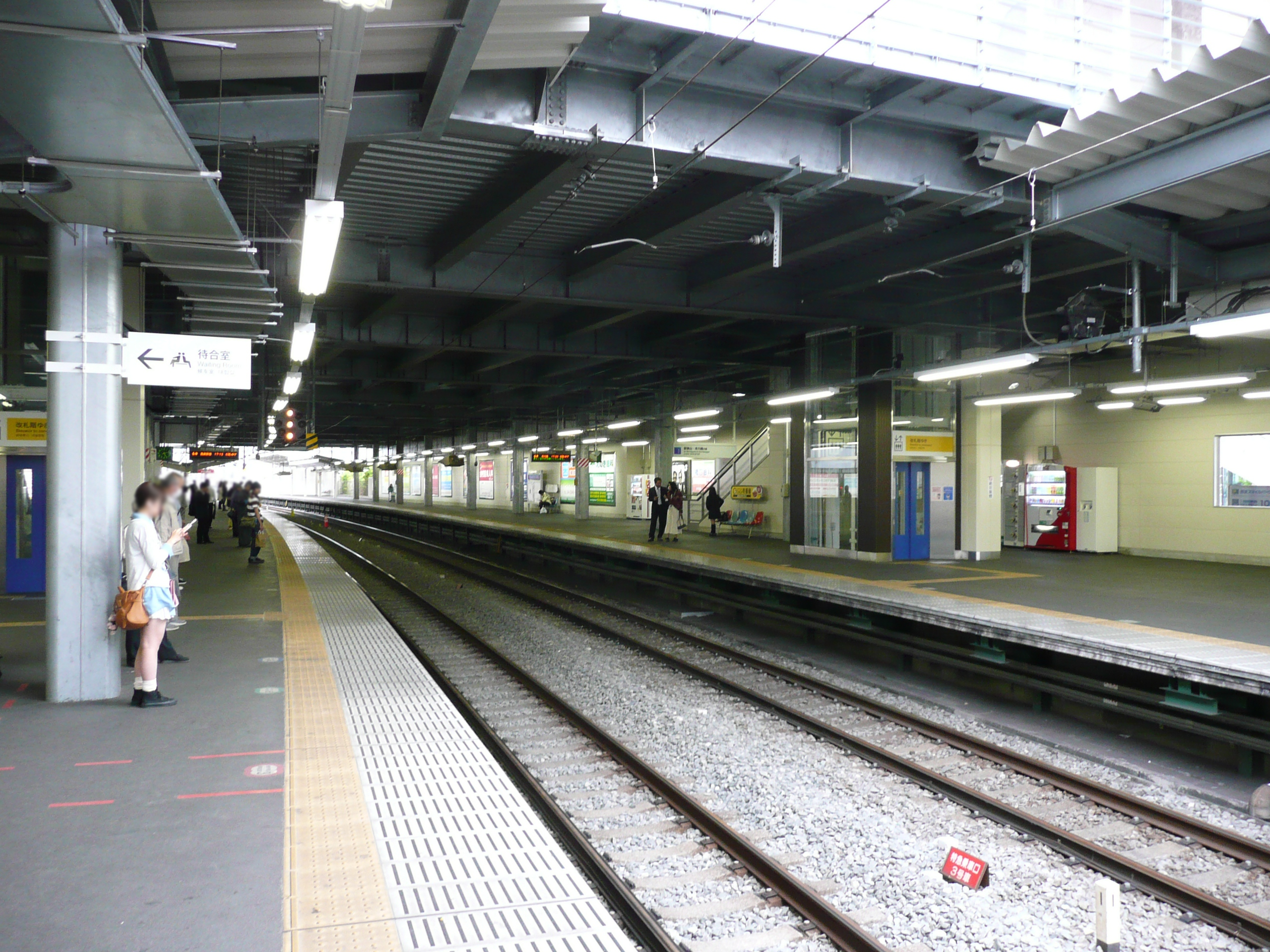 Platforms of Sayamashi Station